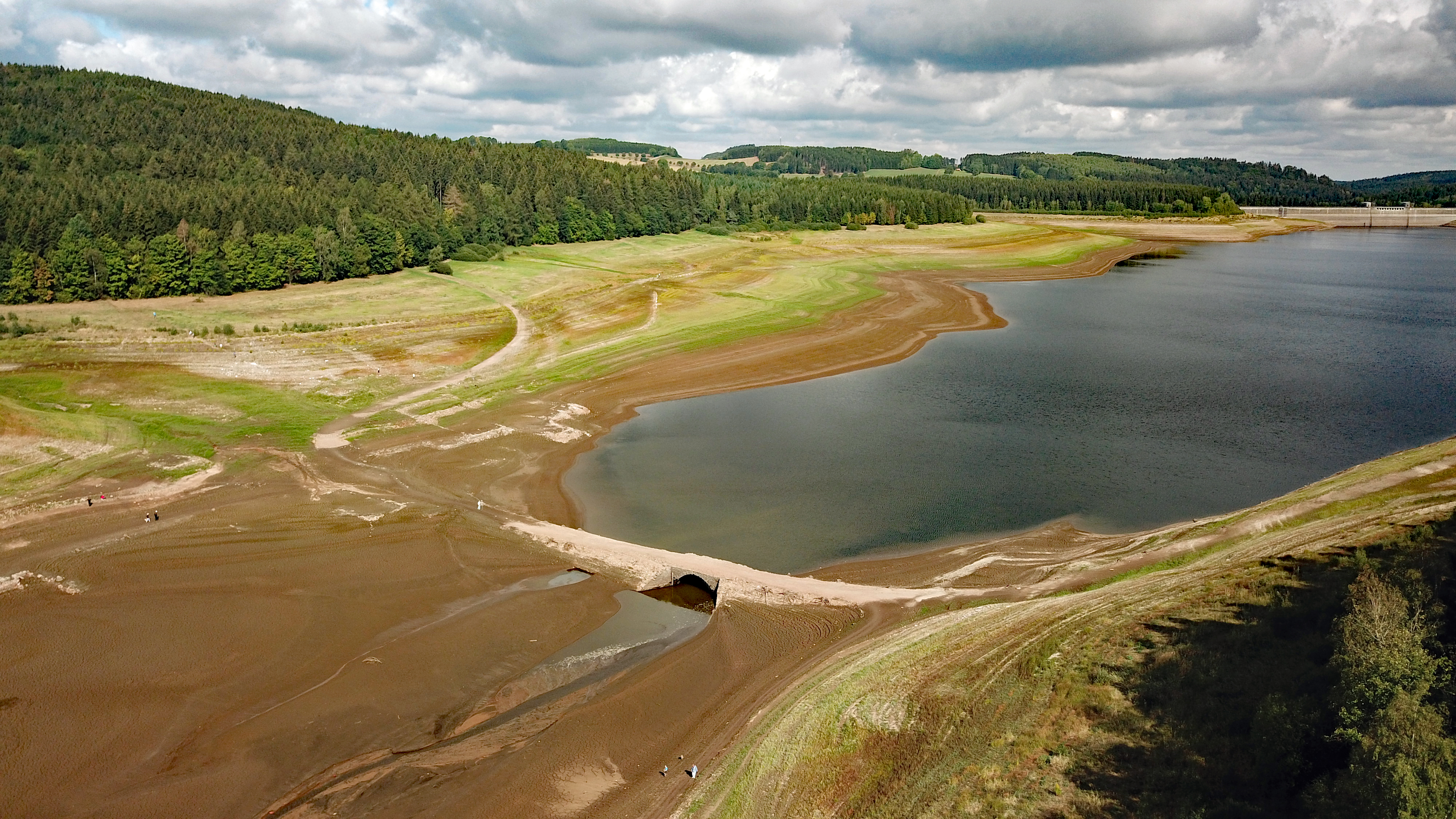 Talsperre Lehnmühle (Saxony, Germany)